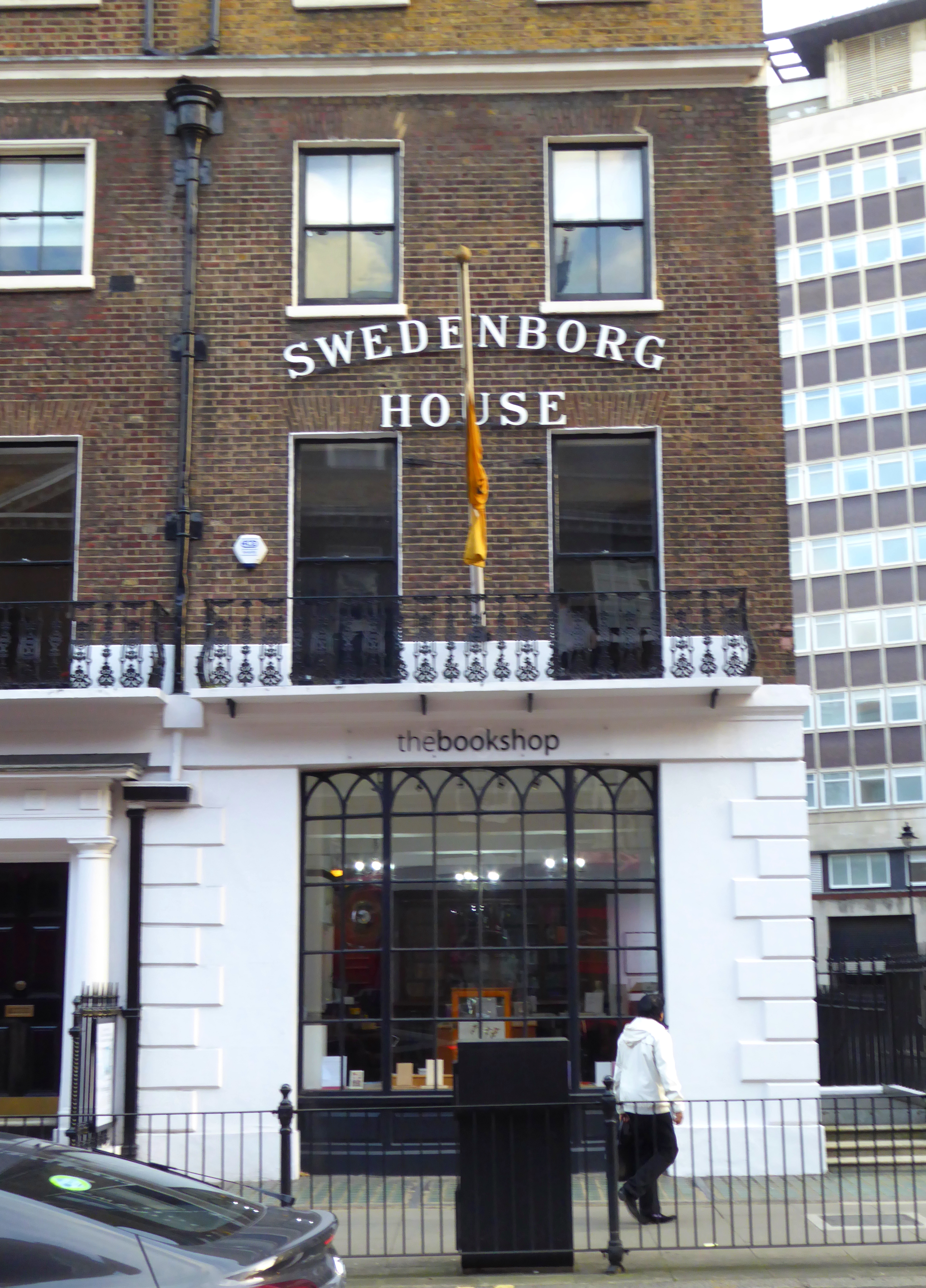 The Swedenborg House in Bloomsbury, London Borough of Camden.